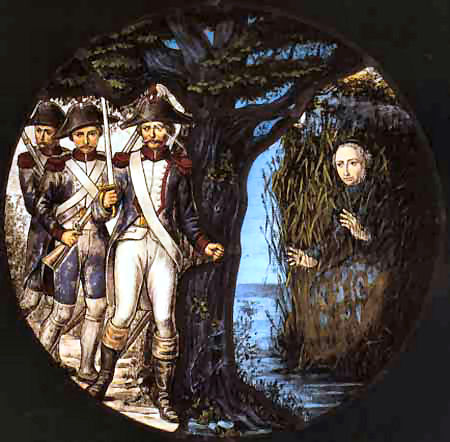 Stained glass window of the Notre-Dame church in Beaupréau, showing abbott Mongazon hinding from the french republican soldiers